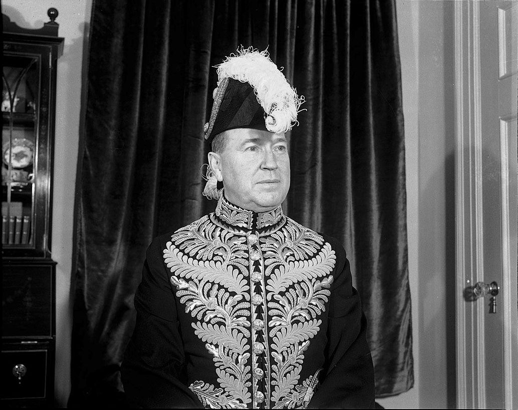 Honourable Albert Matthews, Lieutenant-Governor of Ontario 1937-1946